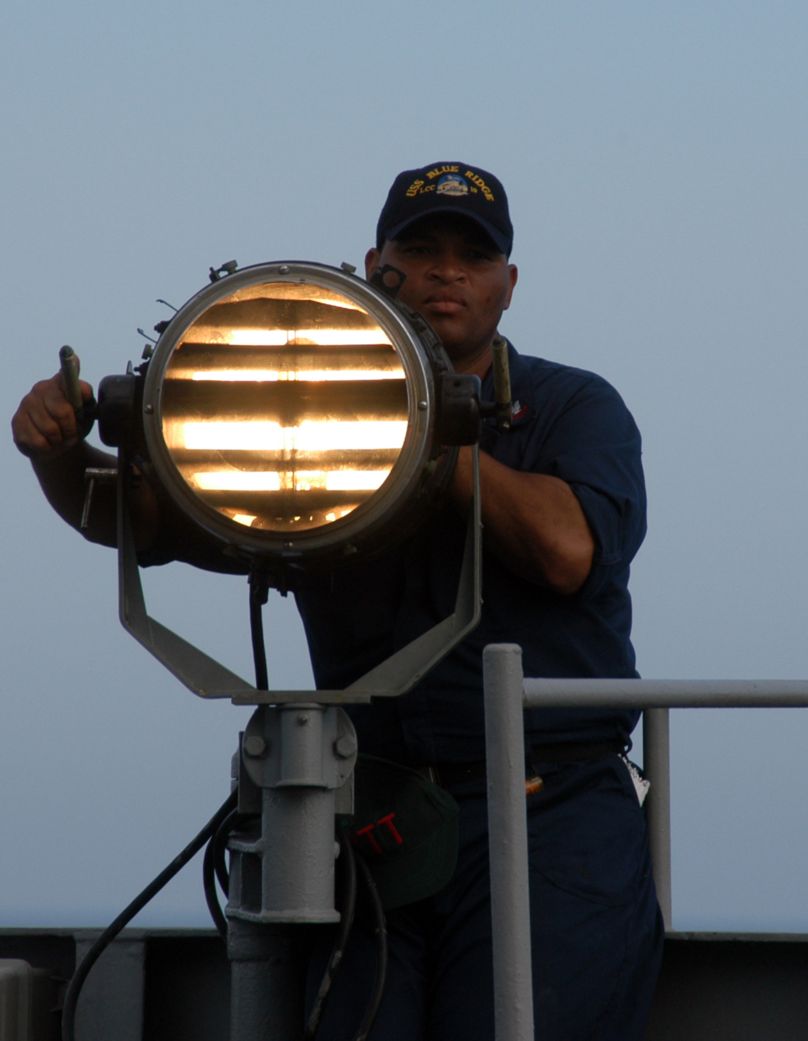 Seaman send Morse code signals; 050322-N-9860Y-109 Philippine Sea (Mar. 22, 2005) - Quartermaster 2nd Class Tony Evans of Houston, Texas, sends Morse code signals from the bridge wing aboard the command ship USS Blue Ridge (LCC 19) to the Military Sealift Command (MSC) combat stores ship USNS Concord (T-AFS 5), during a replenishment at sea. Blue Ridge, permanently forward deployed to Yokosuka, Japan, is on a regularly scheduled deployment in the Western Pacific and Indian Oceans. U.S. Navy photo by Photographer's Mate 3rd Class Tucker M. Yates (RELEASED)